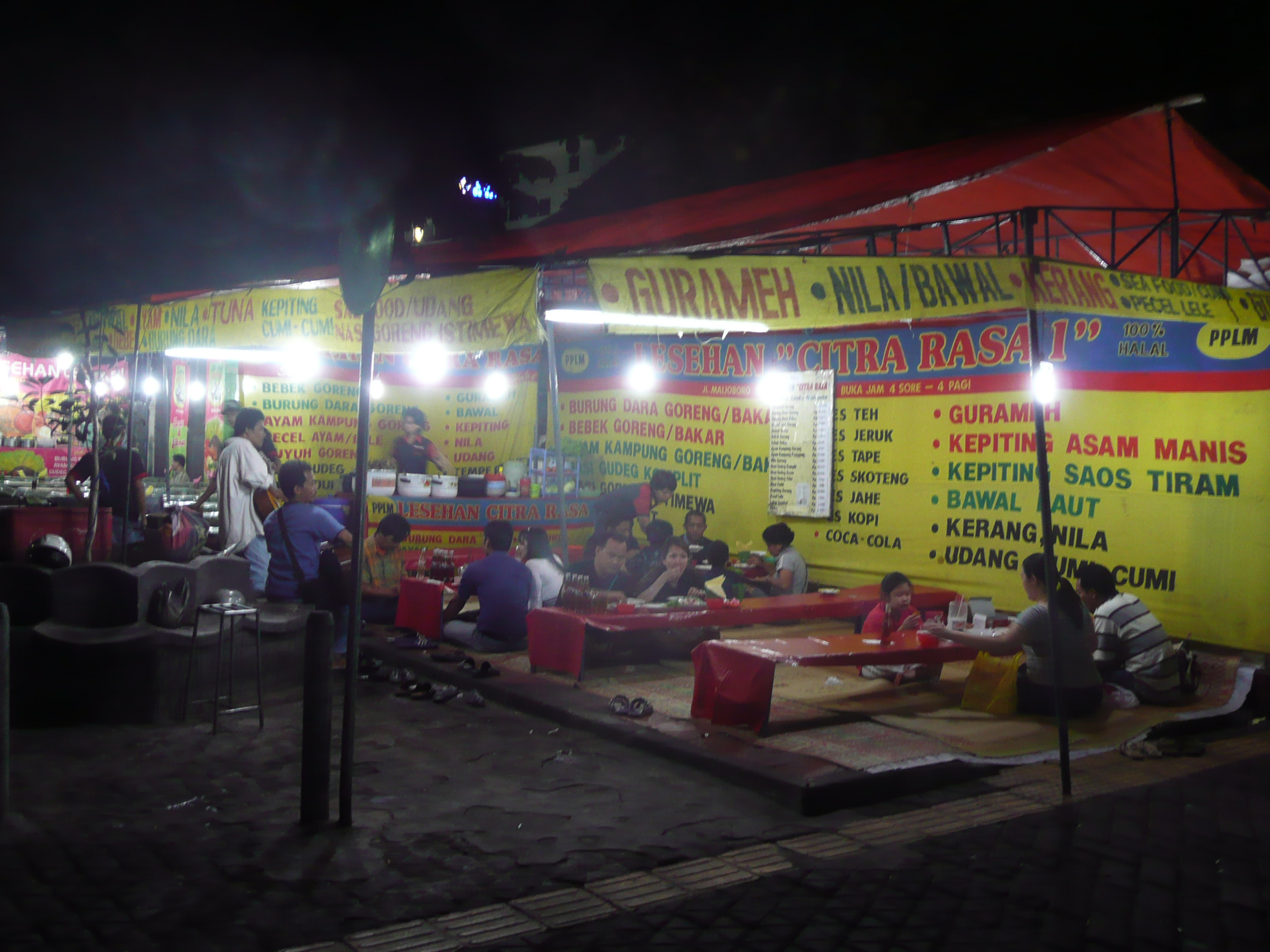 Lesehan (open-air streetside restaurants), Jalan Malioboro, Yogyakarta.